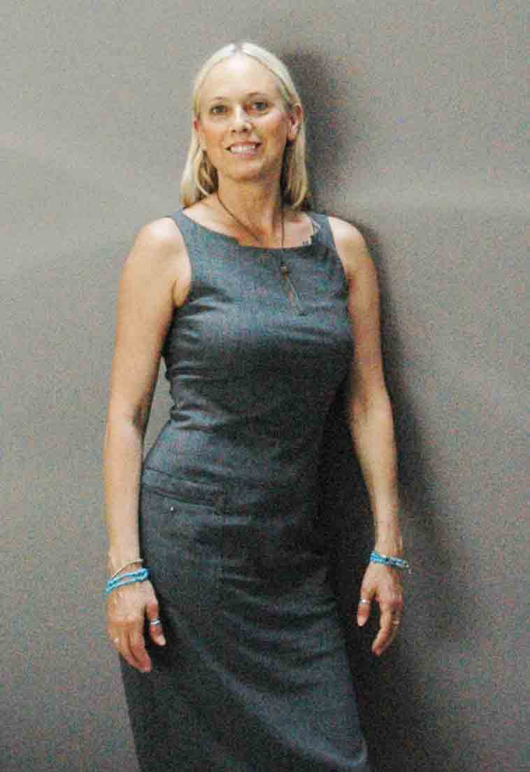 A photograph of Futurist Jody Turner